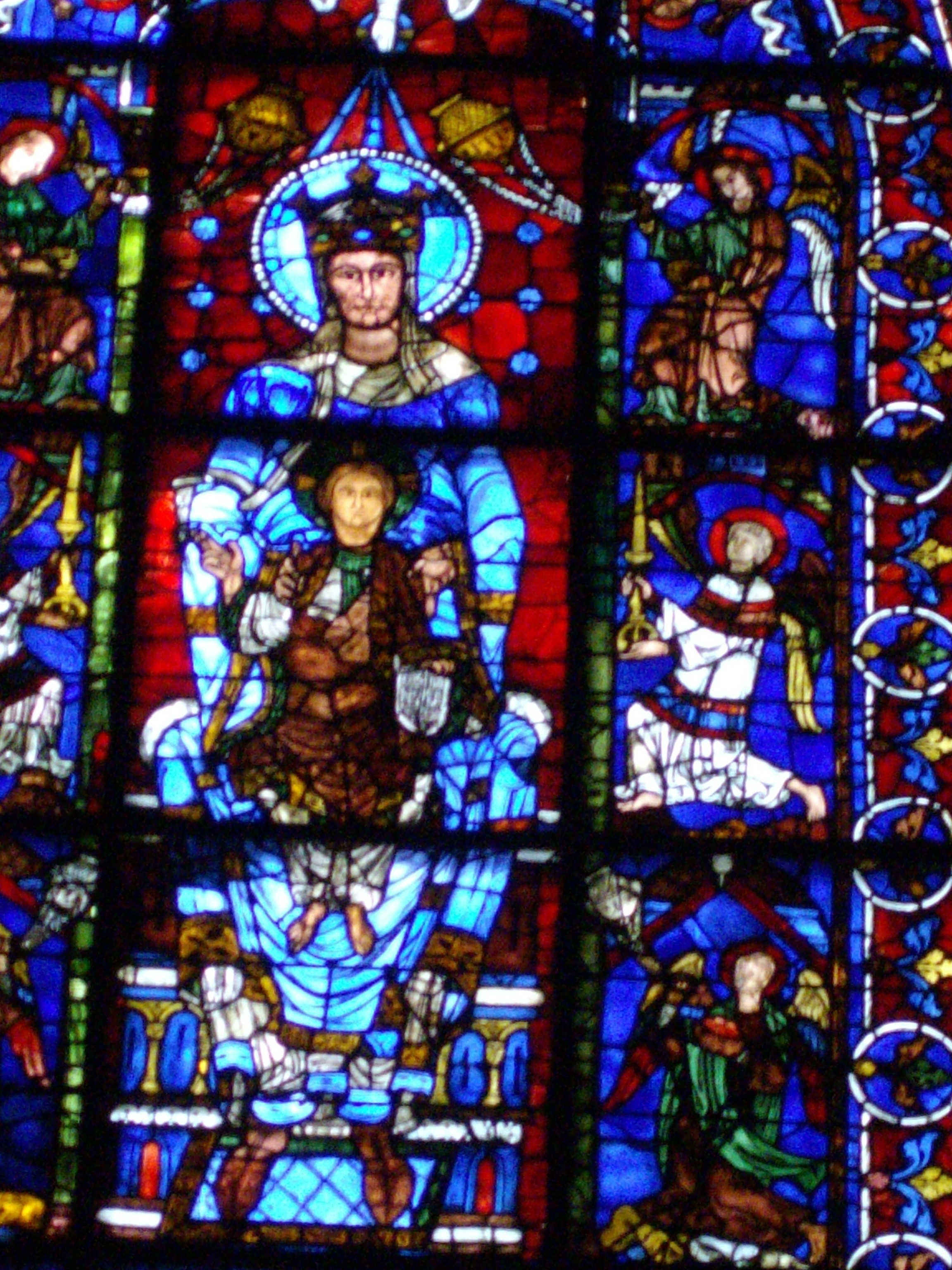 Stained glass windows of the Chartres Cathedral in Chartres (France)